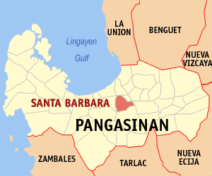 Map of Pangasinan showing the location of Santa Barbara